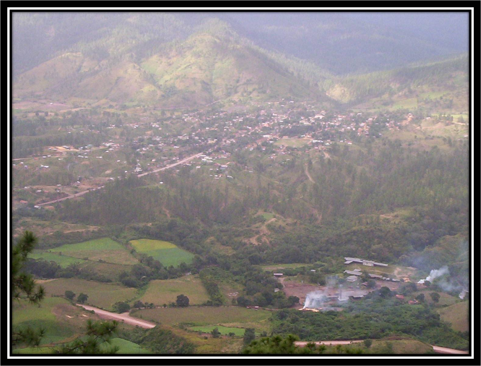 View of La Unión, Olancho Department, taken from the Cerro El Guayabo. Here is the urban aglomeration, and in the front, the road to Olanchito, Yoro. The Cerro Pelon and Muralla National Park are in the backround.